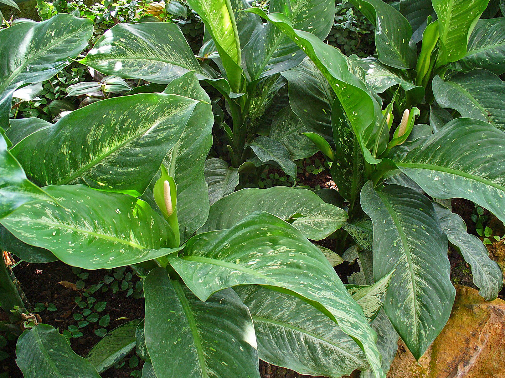 Dieffenbachia seguine, Araceae, Dumb Cane, habitus. The plant is used in homeopathy as remedy: Caladium seguinum (Calad.)